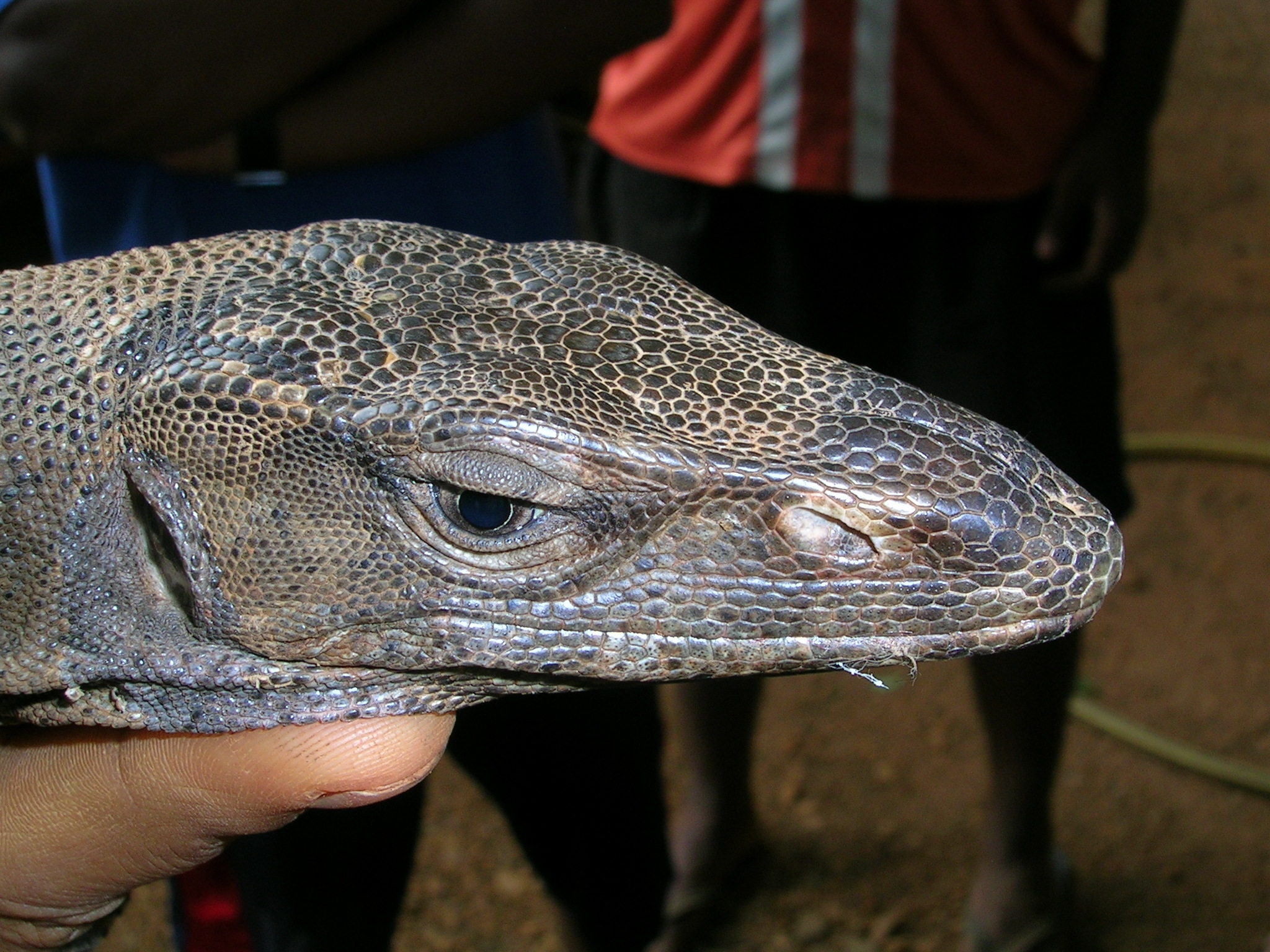 Varanus bengalensis, Wayanad, Kerala